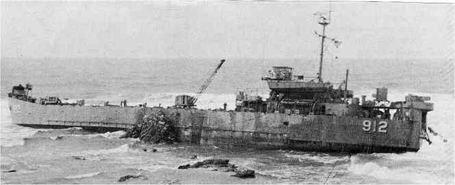 USS Mahnomen County (LST-912) impaled on rocks off Chu Lai, South Vietnam. Salvage efforts being unsuccessful her cargo was removed, she was stripped of salvageable materials and demolished by personnel of the US Navy Support Detachment, Chu Lai, circa January 1967. US Naval Instituted photo.Official US Navy photograph taken from